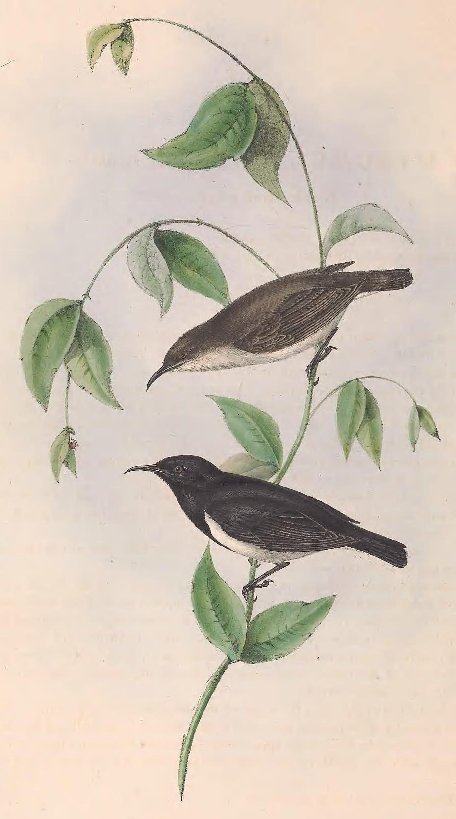 1848 illustration of female and male black honeyeater. Captioned as Myzomela nigra Gould, now known as Sugomel nigrum.